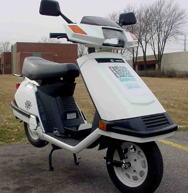 80 cc, Four-Stroke, Single Cylinder Scooter Converted to Run on Hydrogen